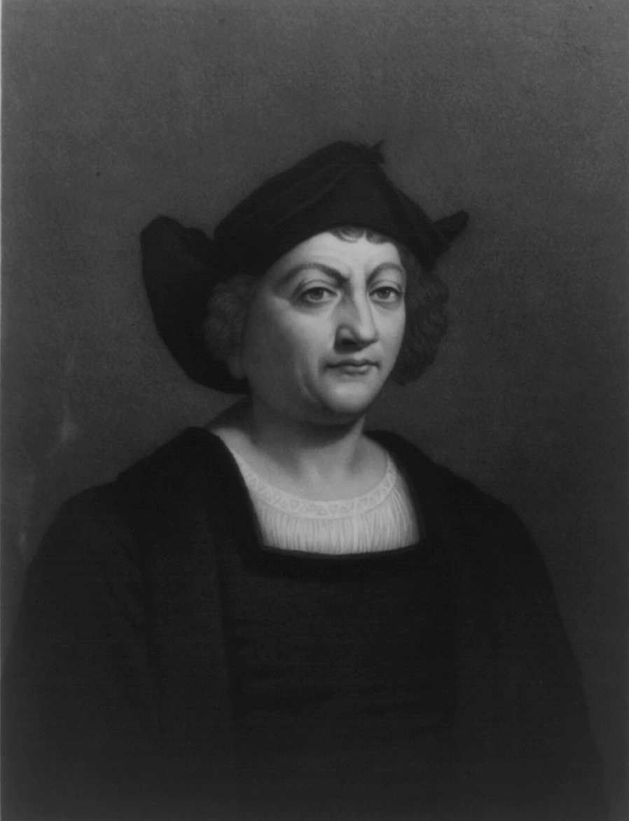 Christopher Columbus, bust. Engraving by John Sartain from the original portrait presented to William A. Bryan, Esq., of Virginia by H.M. the late Queen Sophia of Holland.